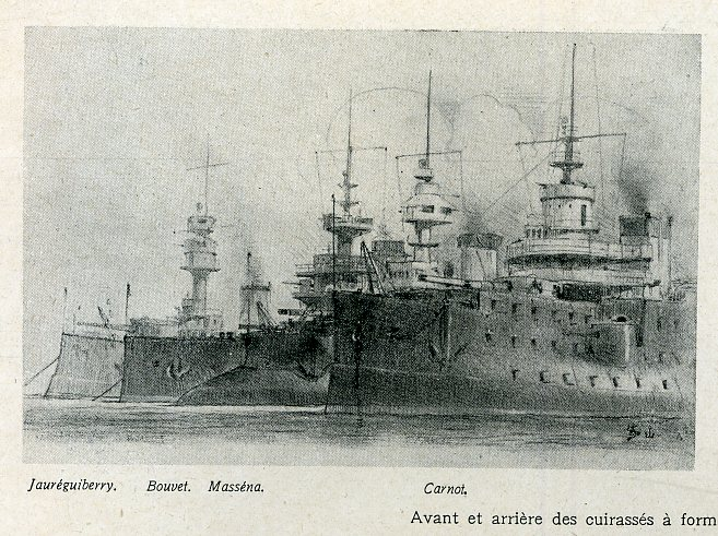 Drawing depicting bows of French battleships, left-right : Jauréguiberry, Bouvet, Masséna, Carnot